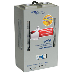 Стабилизаторы переменного напряжения электронные